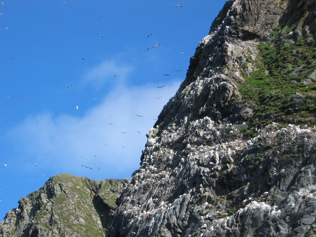 Birds at Runde, an island in Herøy in Møre og Romsdal.